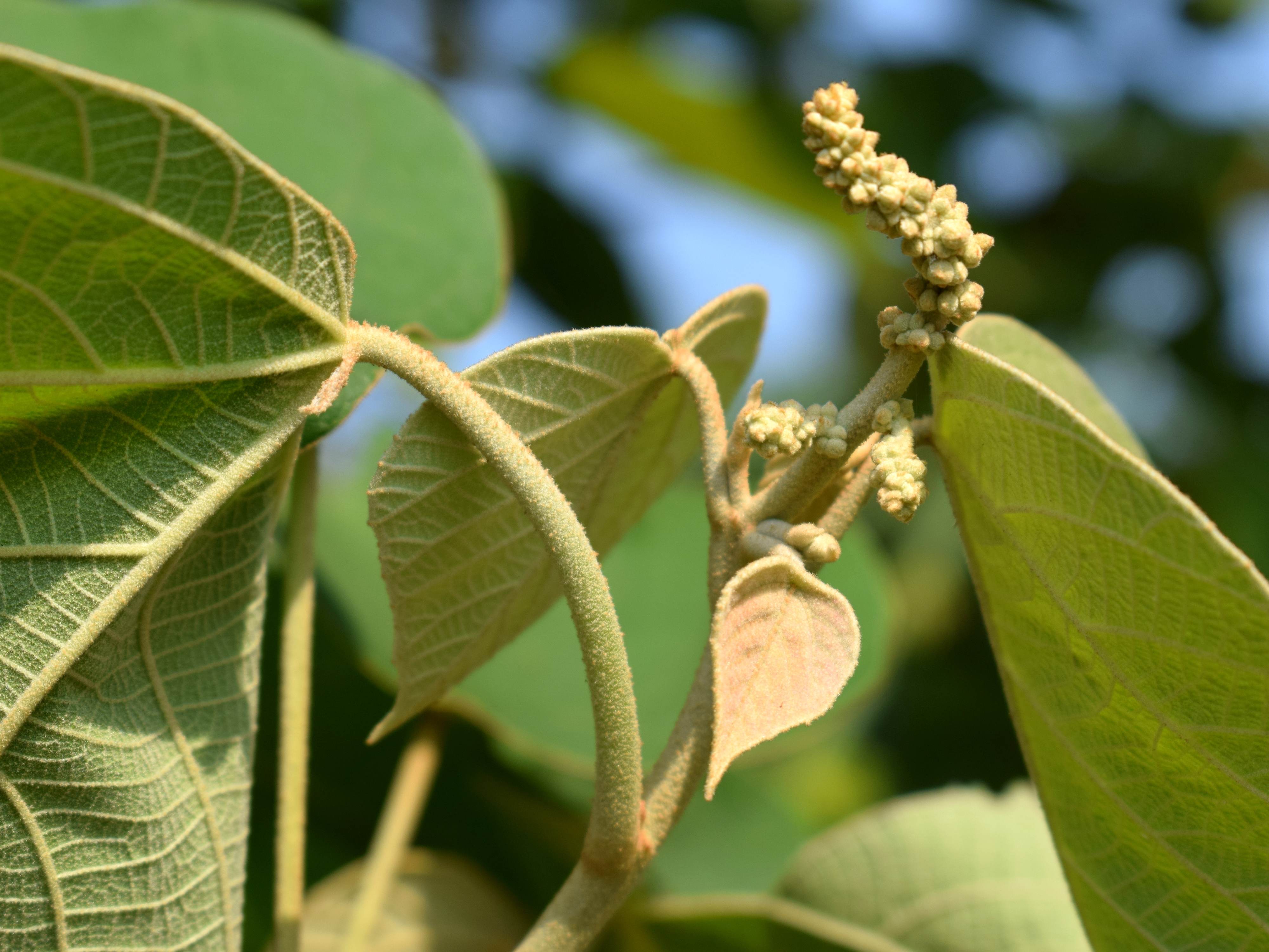 Mallotus molissimus; leaf and floral bud. From Bogor, West Java, Indonesia.